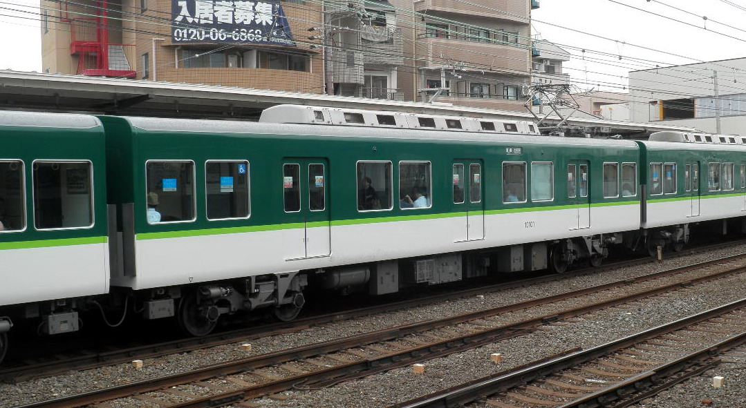 Keihan 10101 non-driving motor car modified from 7301 non-driving motor car. 7301 was a part of 7200 series.